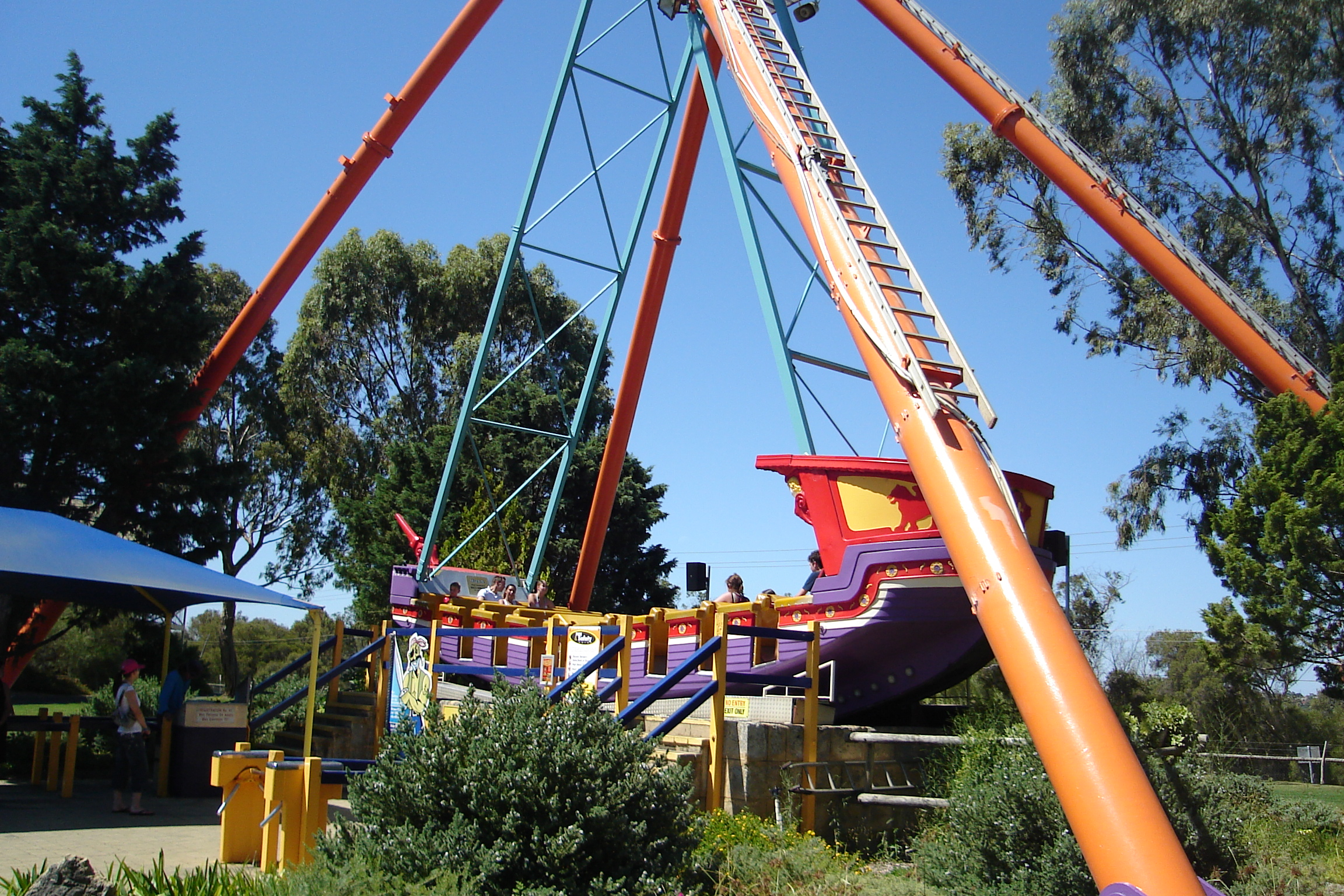 One of my photos taken at Adventure World, Perth. Bounty's Revenge is now themed brown - it was repainted in 2011